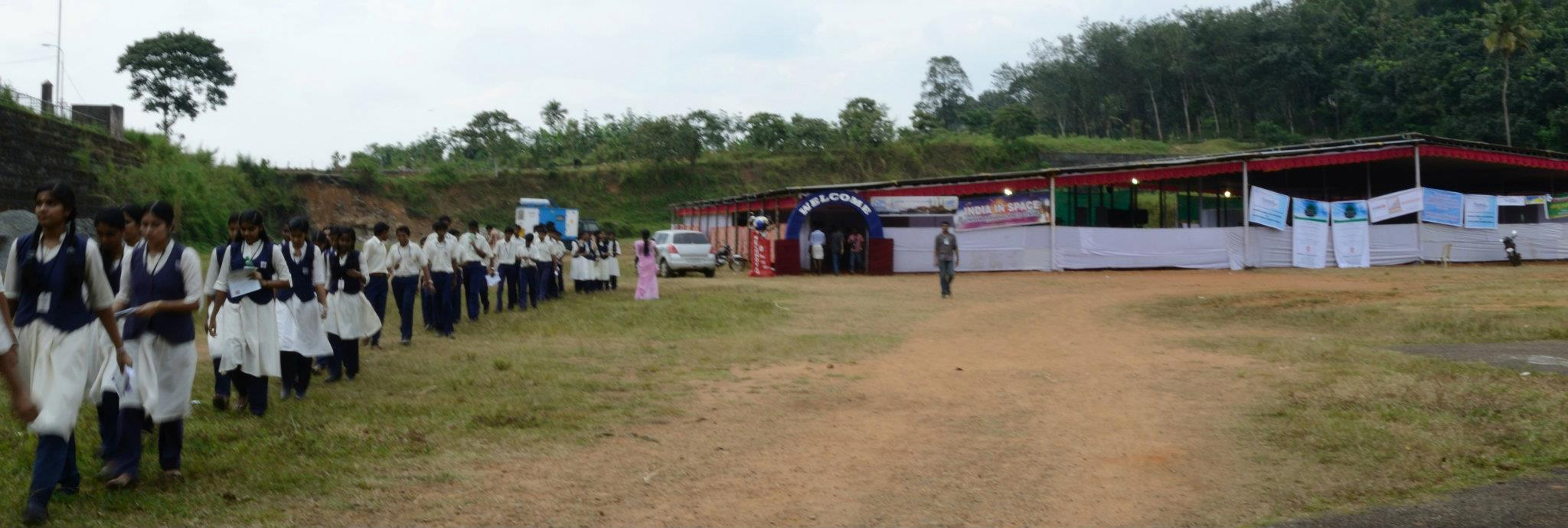 Scene from the ground of Mechnova'11.